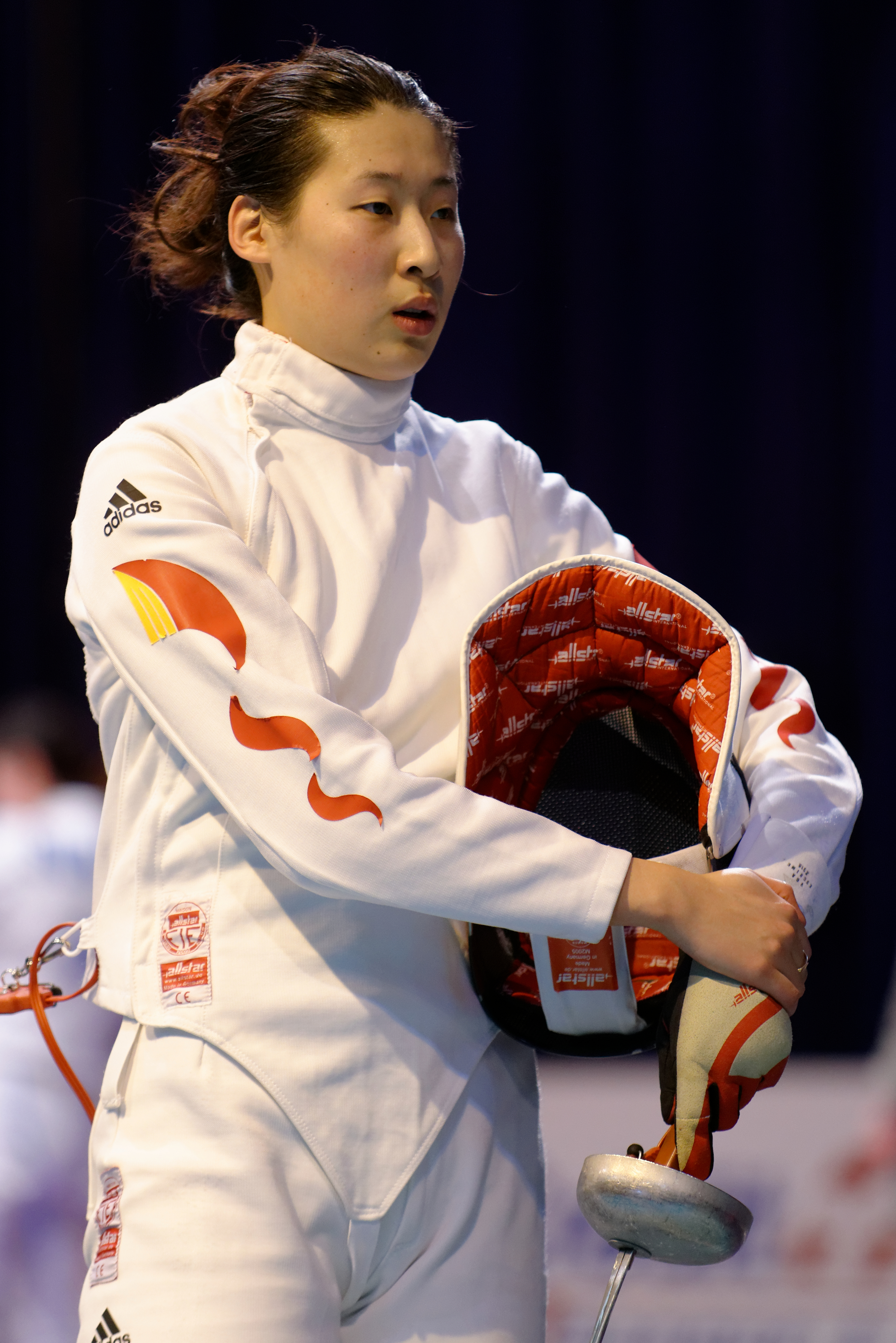 China's Sun Yujie at the 2014 Challenge International de Saint-Maur (women's épée World Cup).